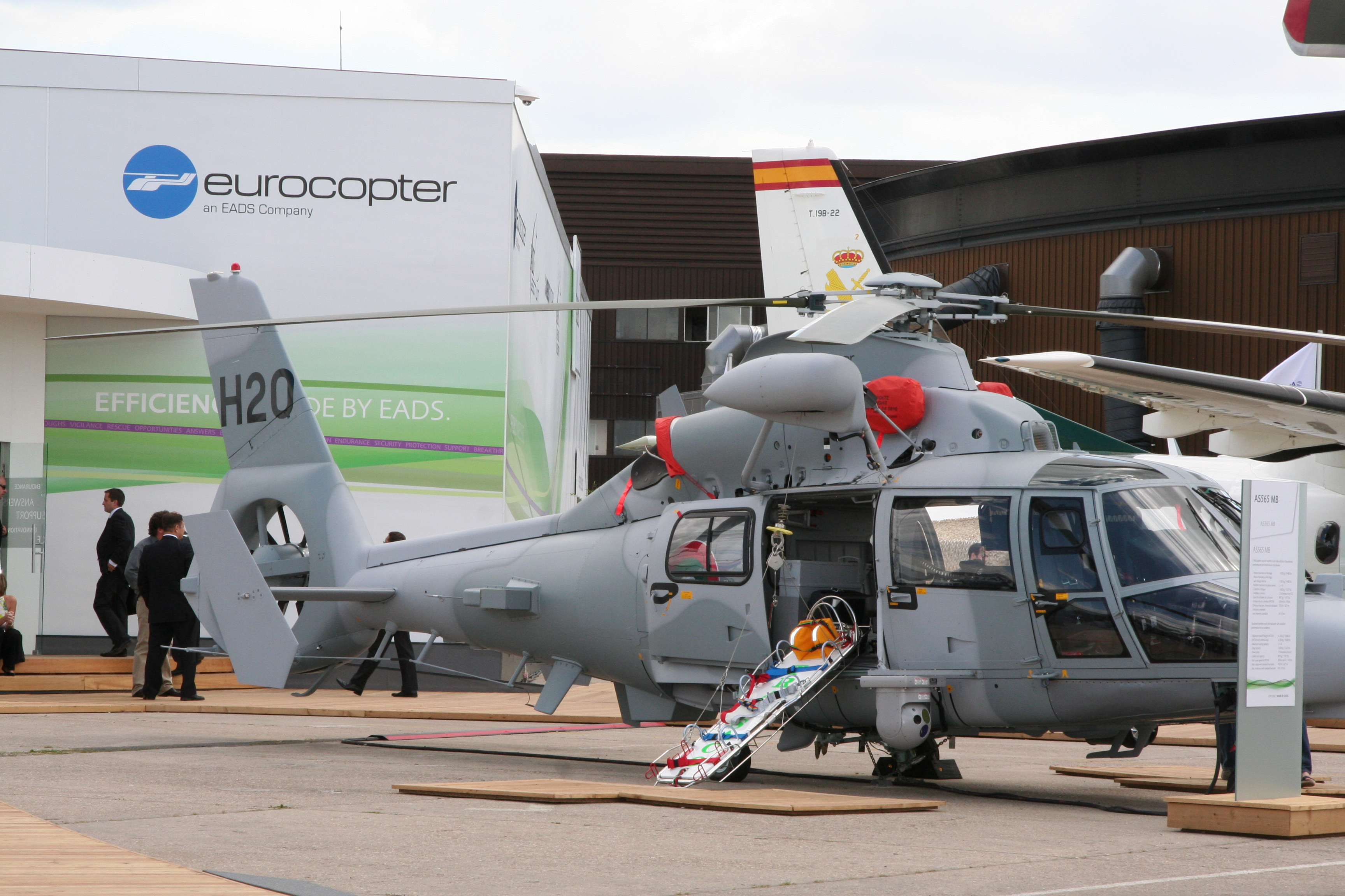 Eurocopter AS565 MB - Paris Air Show 2009